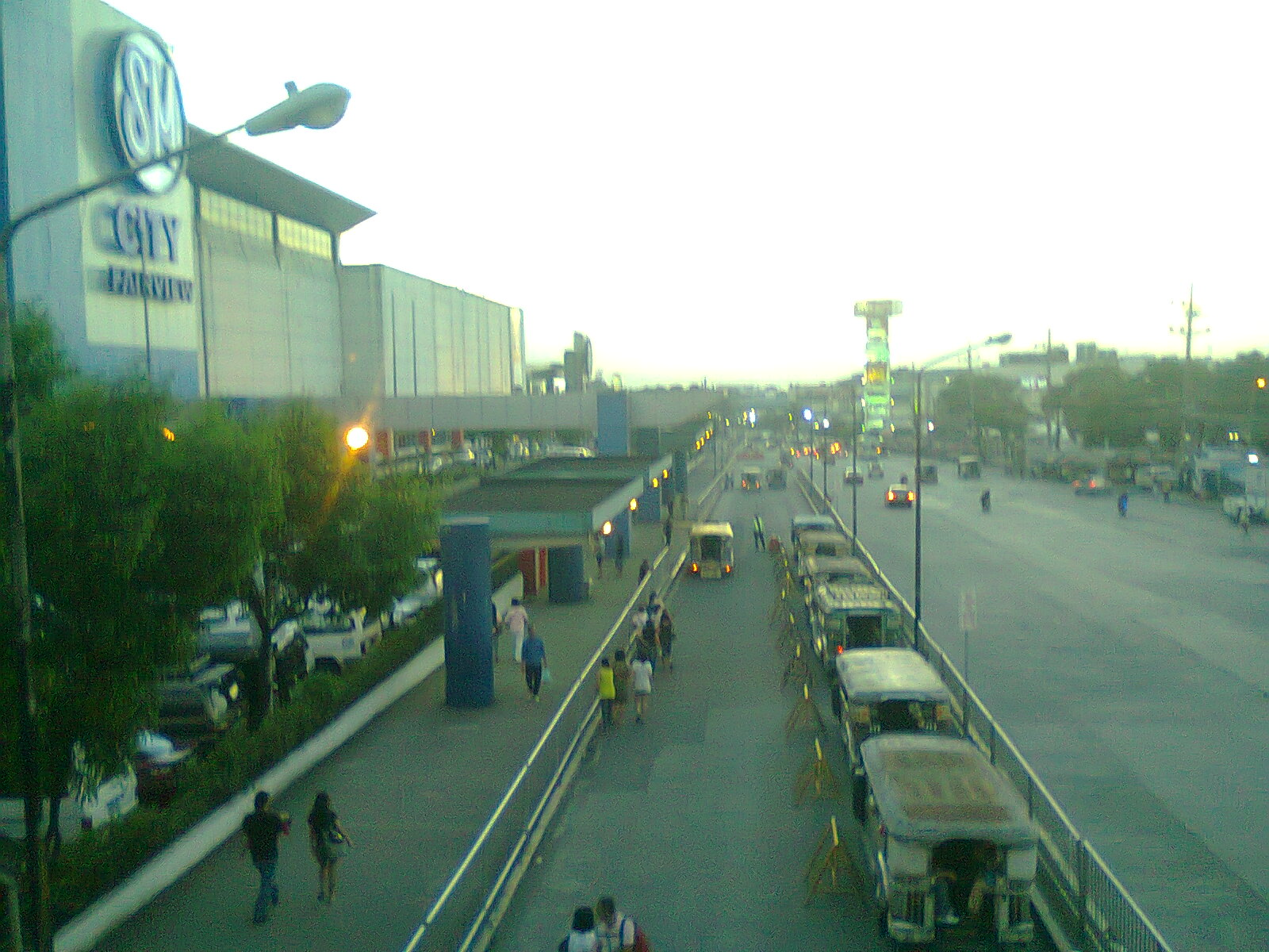 Quirino Highway, overlooking the Neopolitan Business District